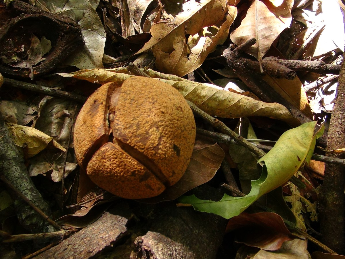 Fallen fruit of Billia sp. - Costa Rica, Rincon de la Vieja National Park.